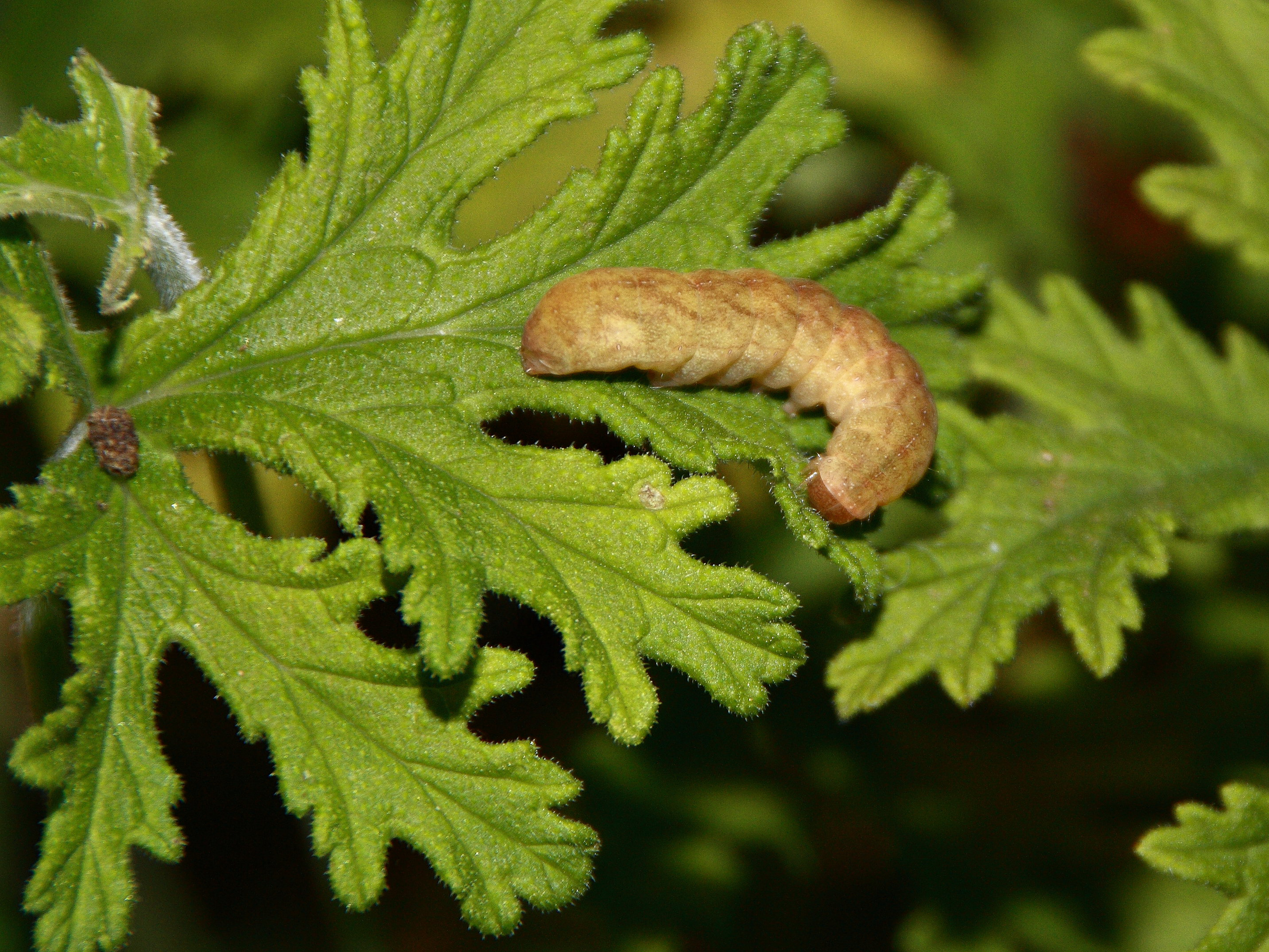 Caterpillar of a Noctuidae in a Pelargonium citrosum.